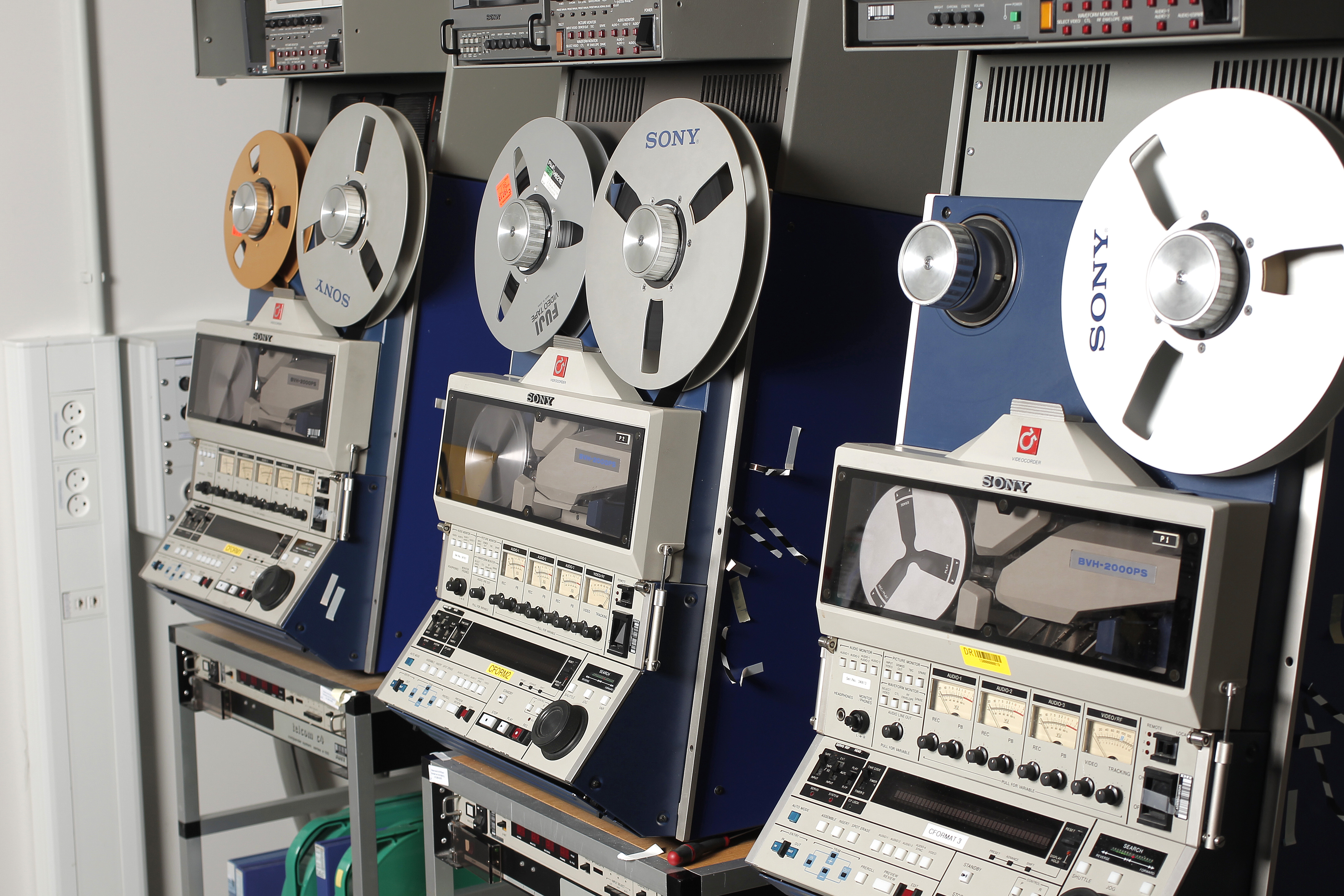 Danmarks Radios arkiv af DRs Kulturarvsprojekt / The archive of the Danish Broadcasting Corporation Photos must be credited "DRs Kulturarvsprojekt"